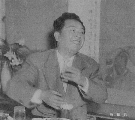 Ryoichi Hattori